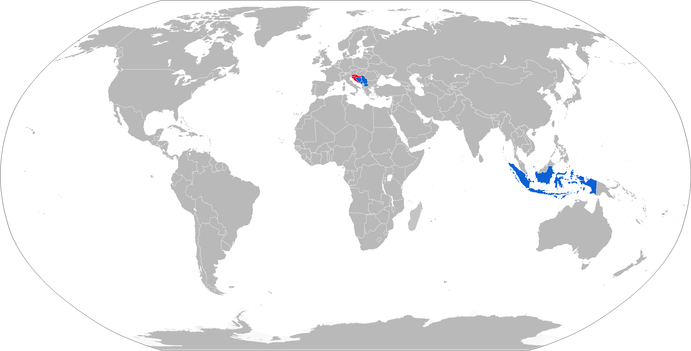 Map with M80 operators in blue and former operators in red